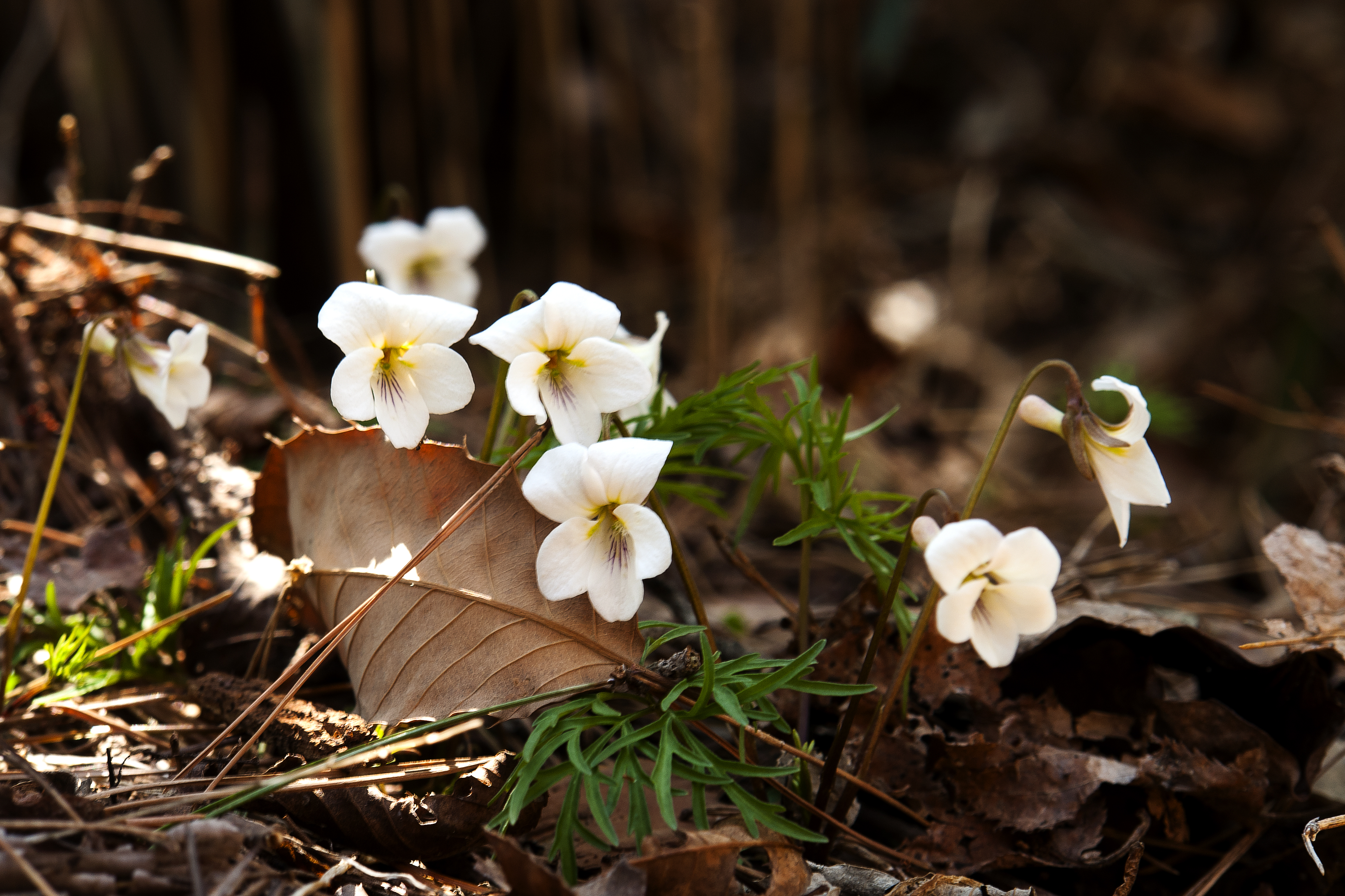 Viola chaerophylloides (synonym Viola dissecta var. chaerophylloides)